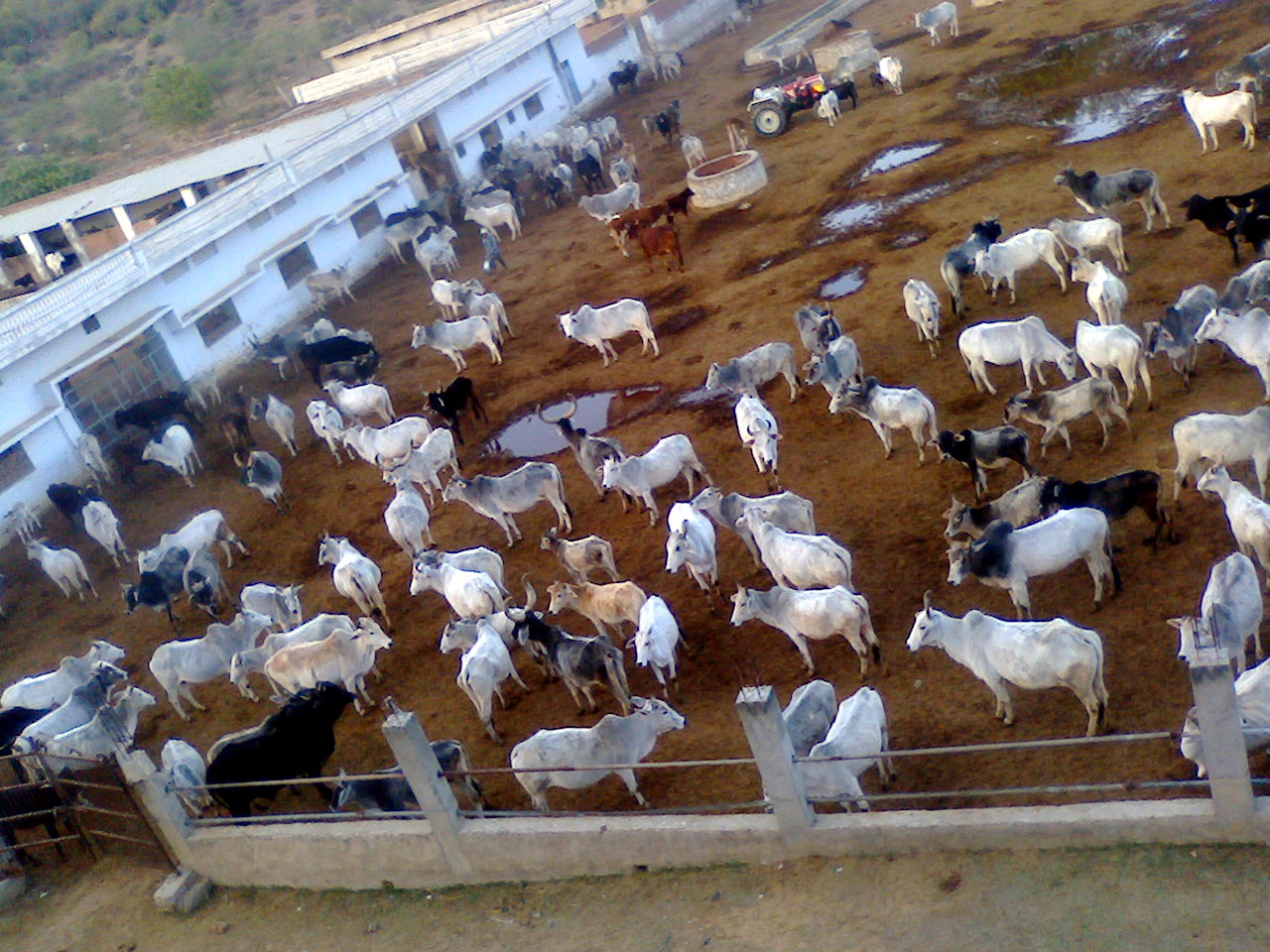 gosalla cow